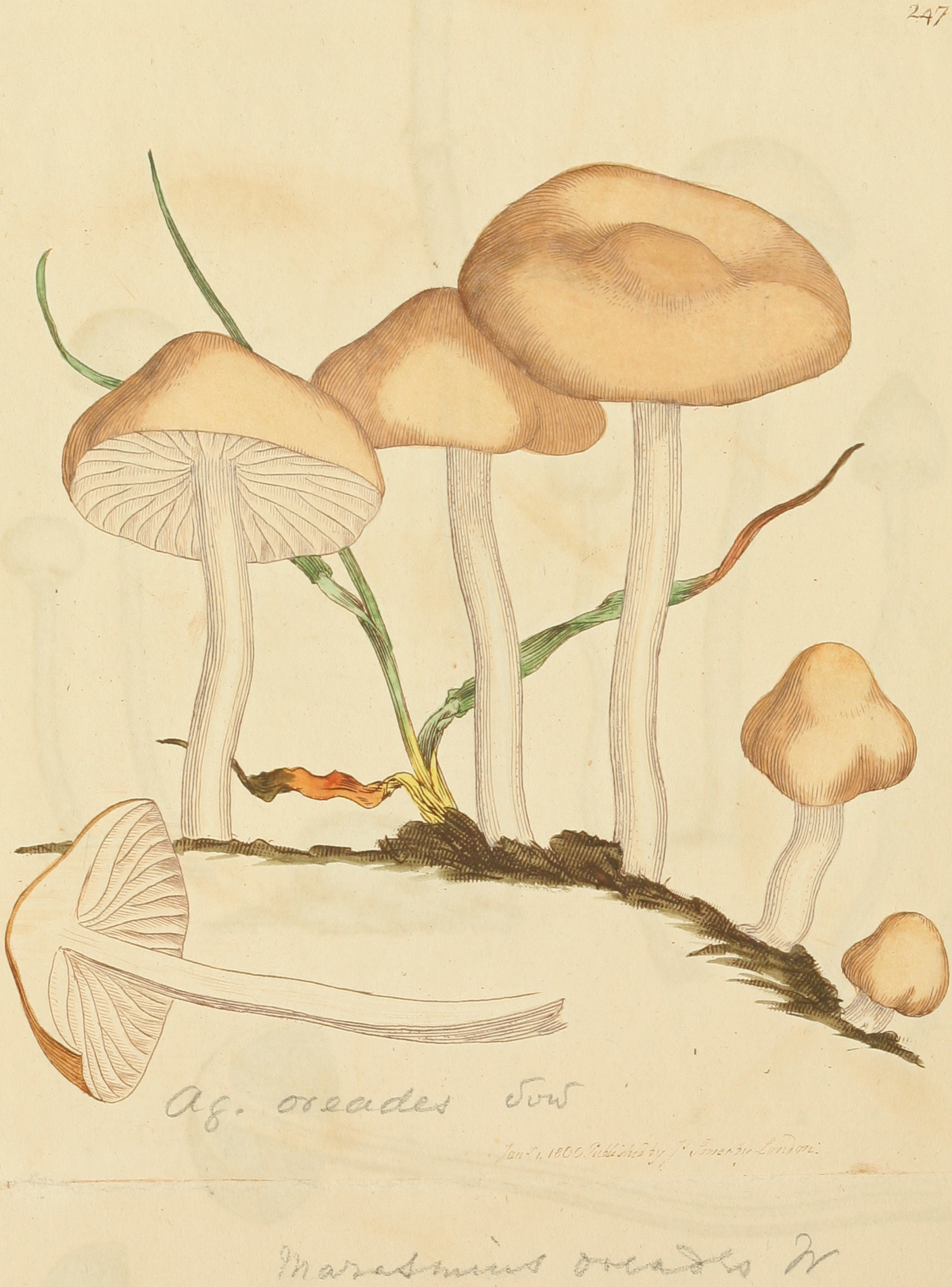 This is a plate from James Sowerby's Coloured Figures of English Fungi or Mushrooms.